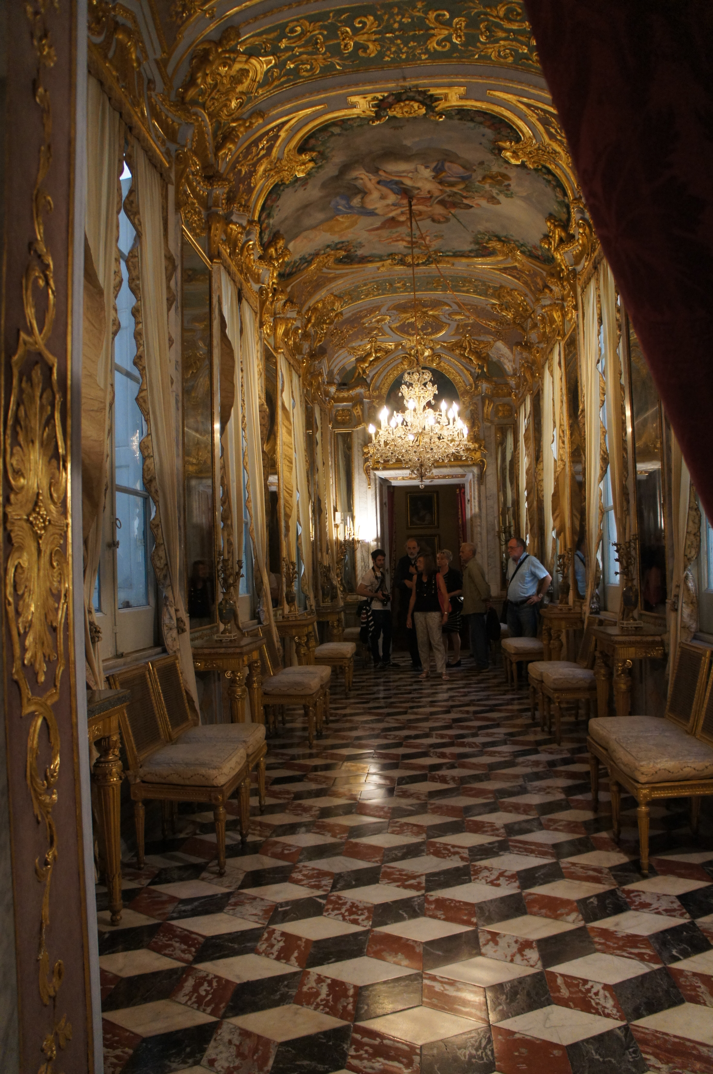 Palazzo Spinola in Pellicceria, Genoa